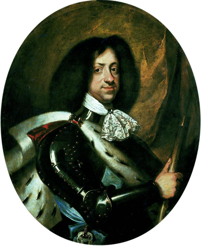 Portrait of Christian V of Denmark